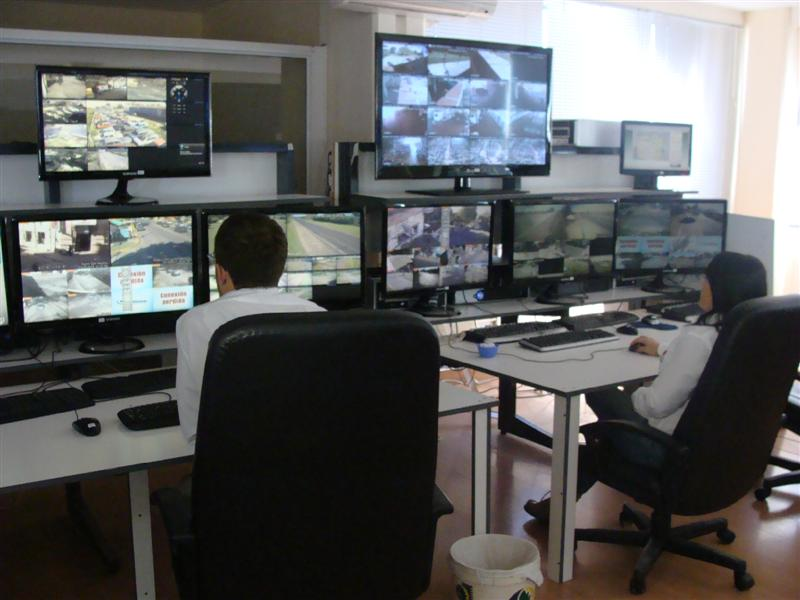 Alerta Pergamino Office